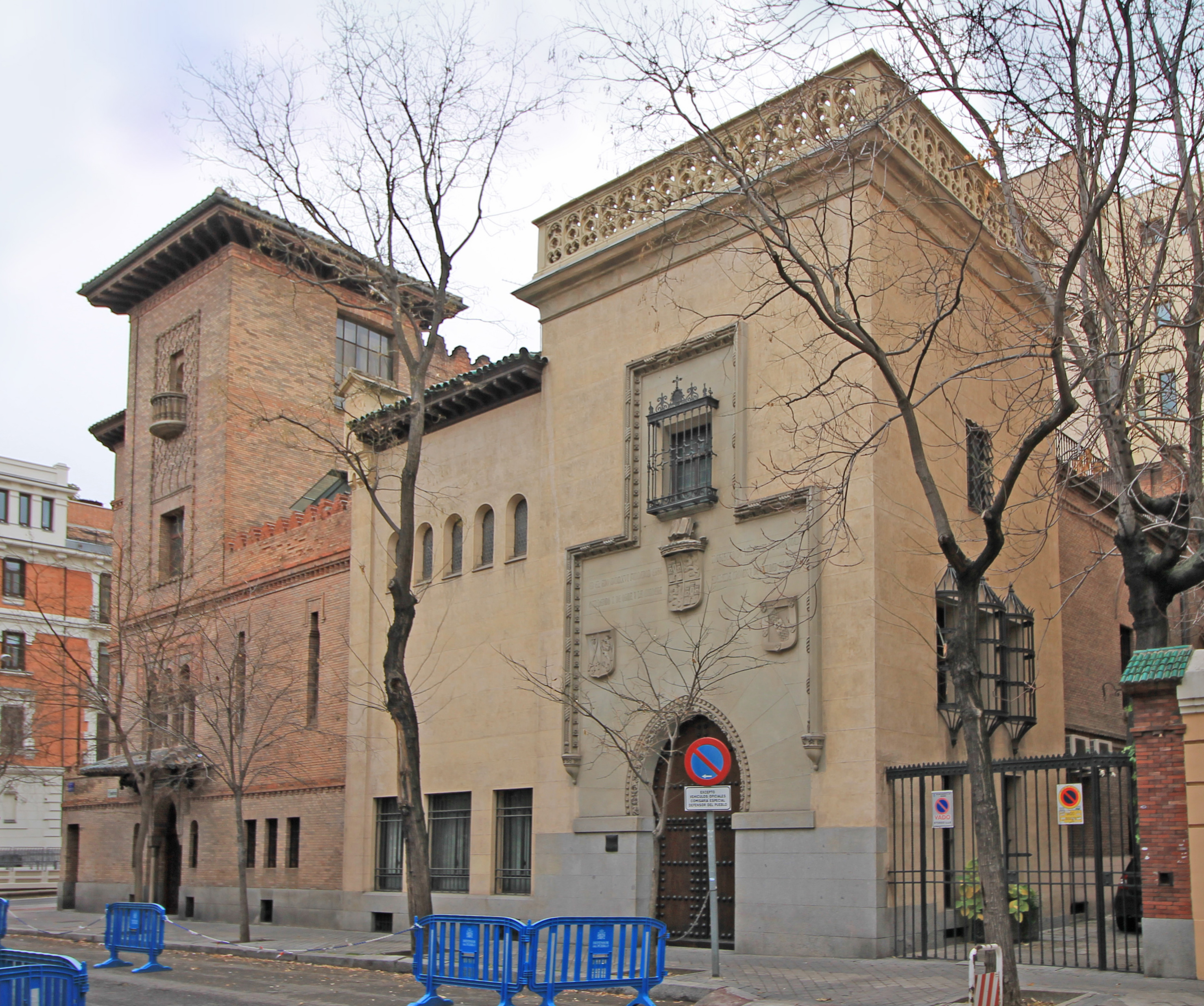 View of the Museo e Instituto de Valencia de Don Juan in Madrid (Spain) from the north-east angle.